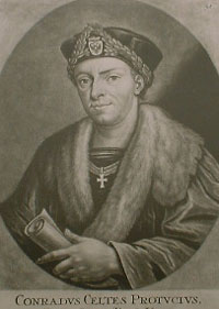 Conrad Celtes , also known as Conrad Celtis, Konrad Celtis German humanist scholar.